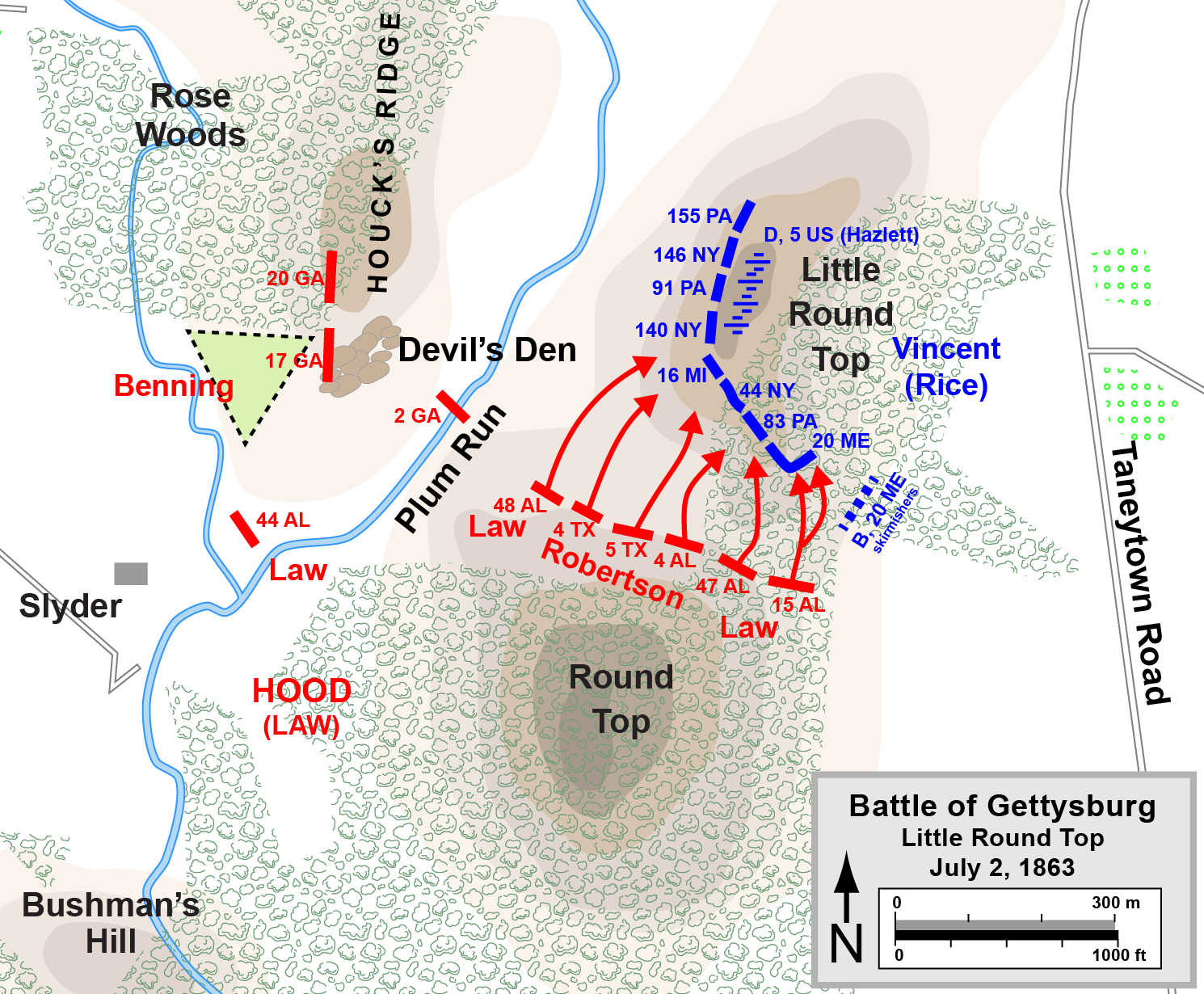 Map of Little Round Top (Battle of Gettysburg) of the American Civil War. Updated unit positions and made topographical background consistent with many other Wikipedia Gettysburg maps. Drawn in Adobe Illustrator CS5 by Hal Jespersen. Graphic source file is available at